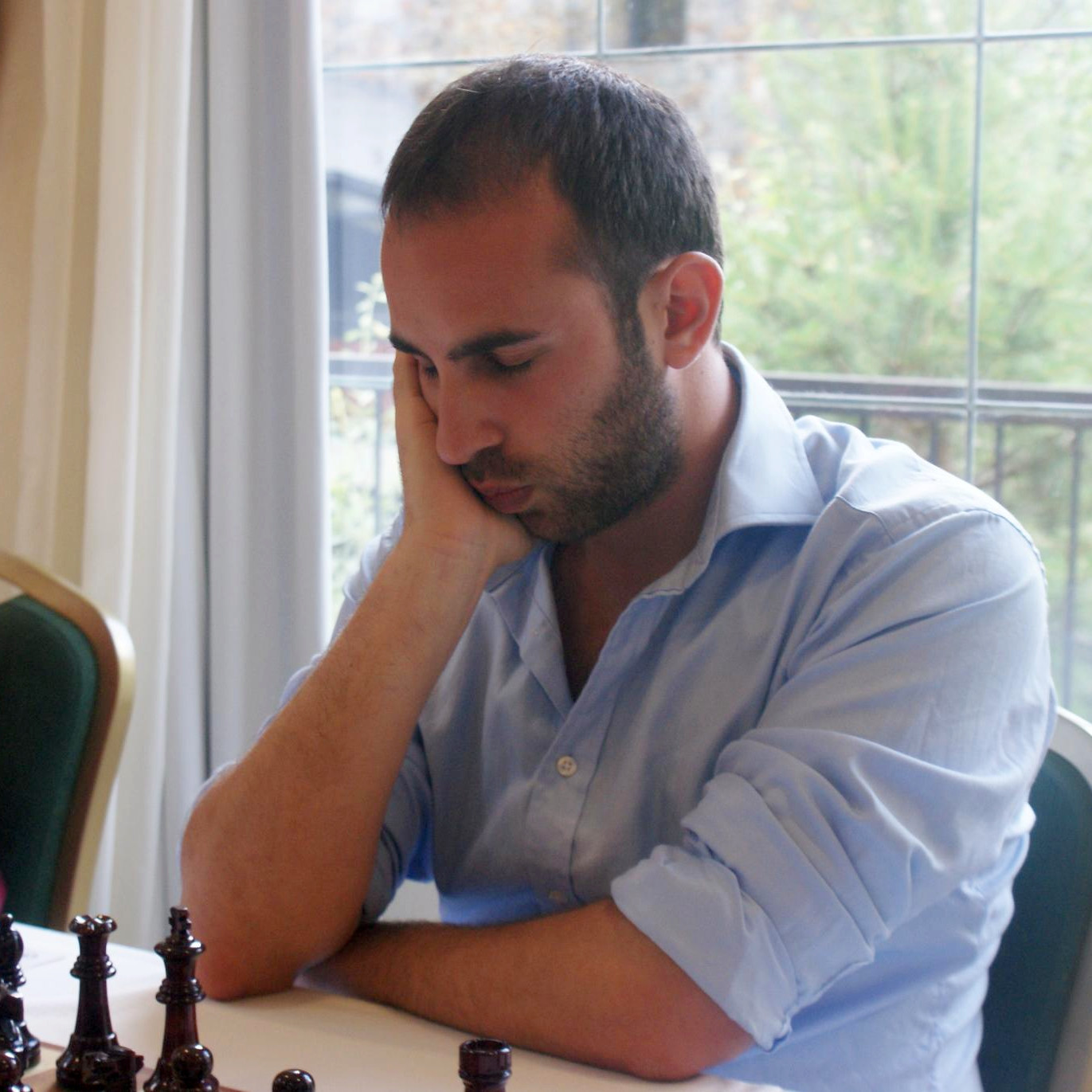 IM Lawrence Trent, 31è Open Internacional d'Andorra, Hotel Sant Gothard, Ronda 5 - 24/07/2013